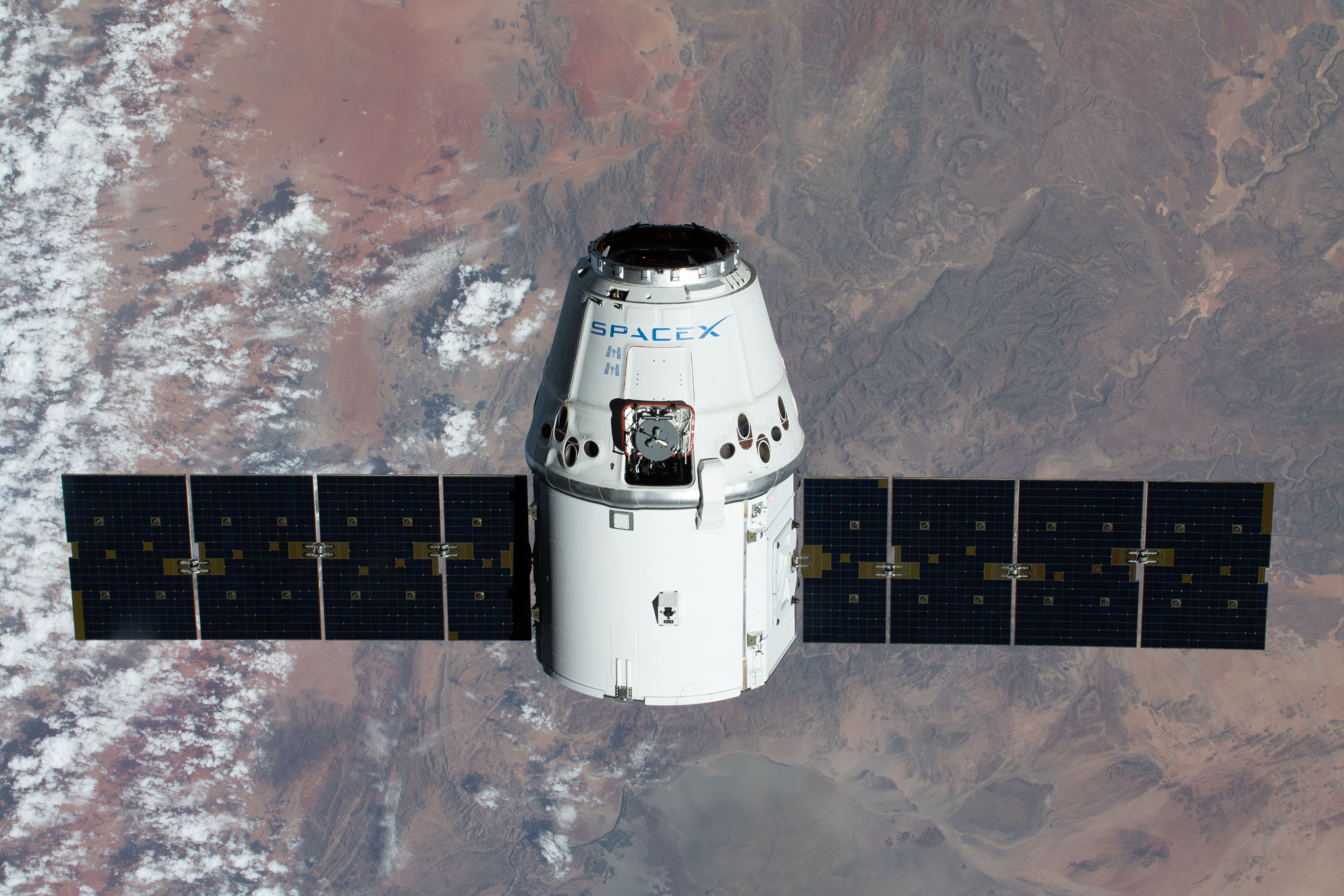 CRS-20